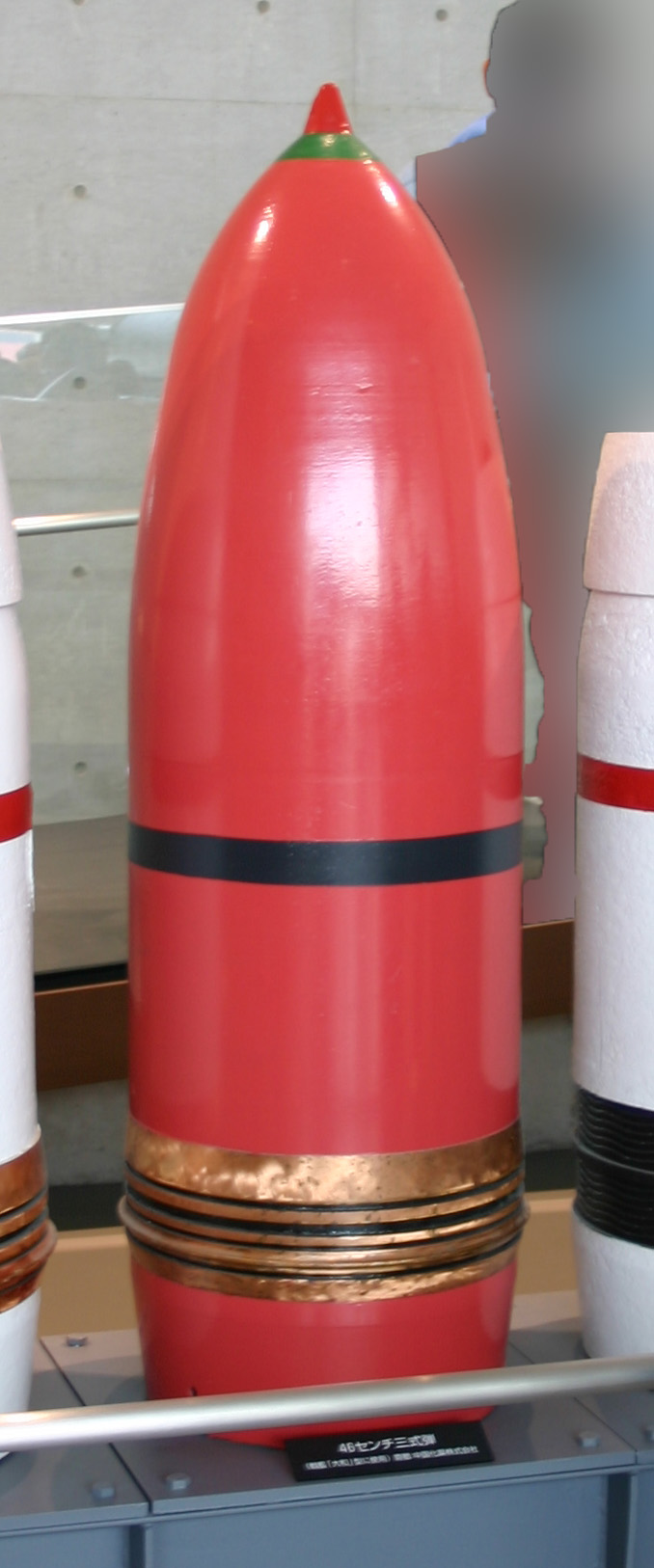 IJN 46cm Type 3 Incendiary Shrapnel Shell (Sanshikidan)